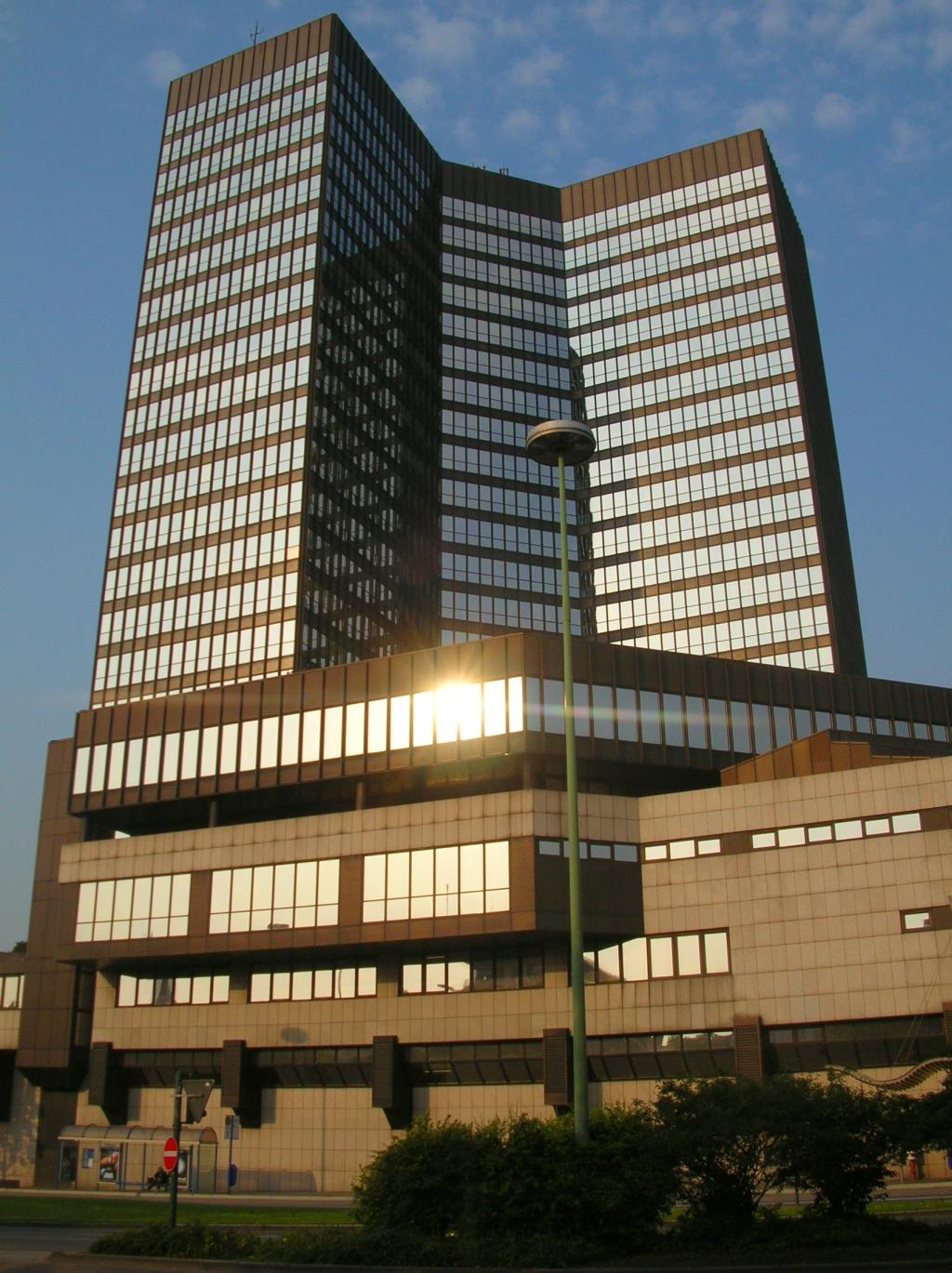 City hall of Essen, Germany.